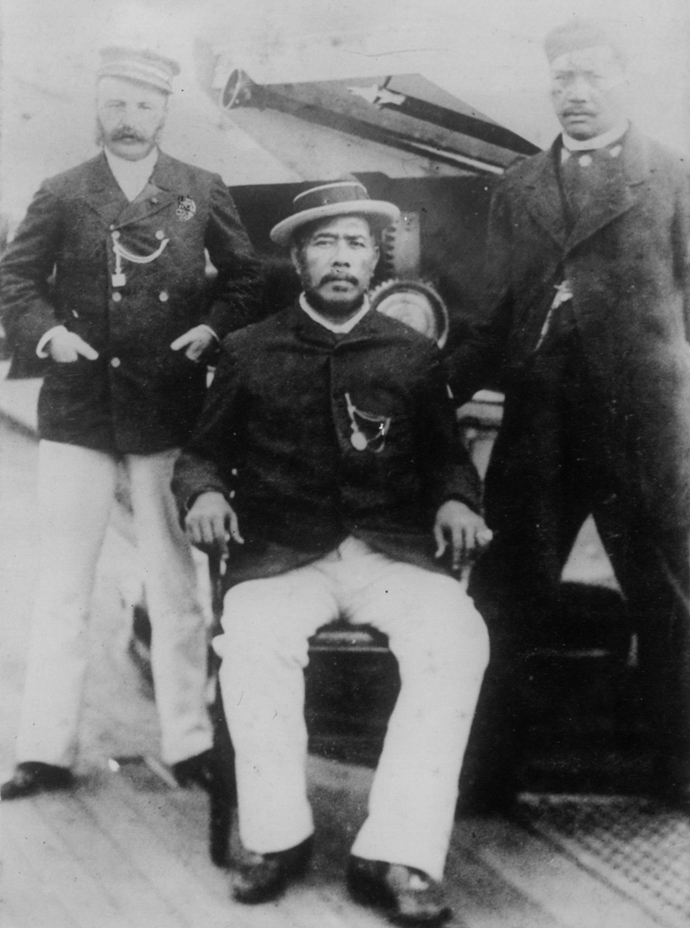 One of the last photos taken of the King, aboard the U.S.S. Charleston: (left to right) Colonel G. W. Macfarlane, King Kalakaua, and Colonel R. H. Baker.